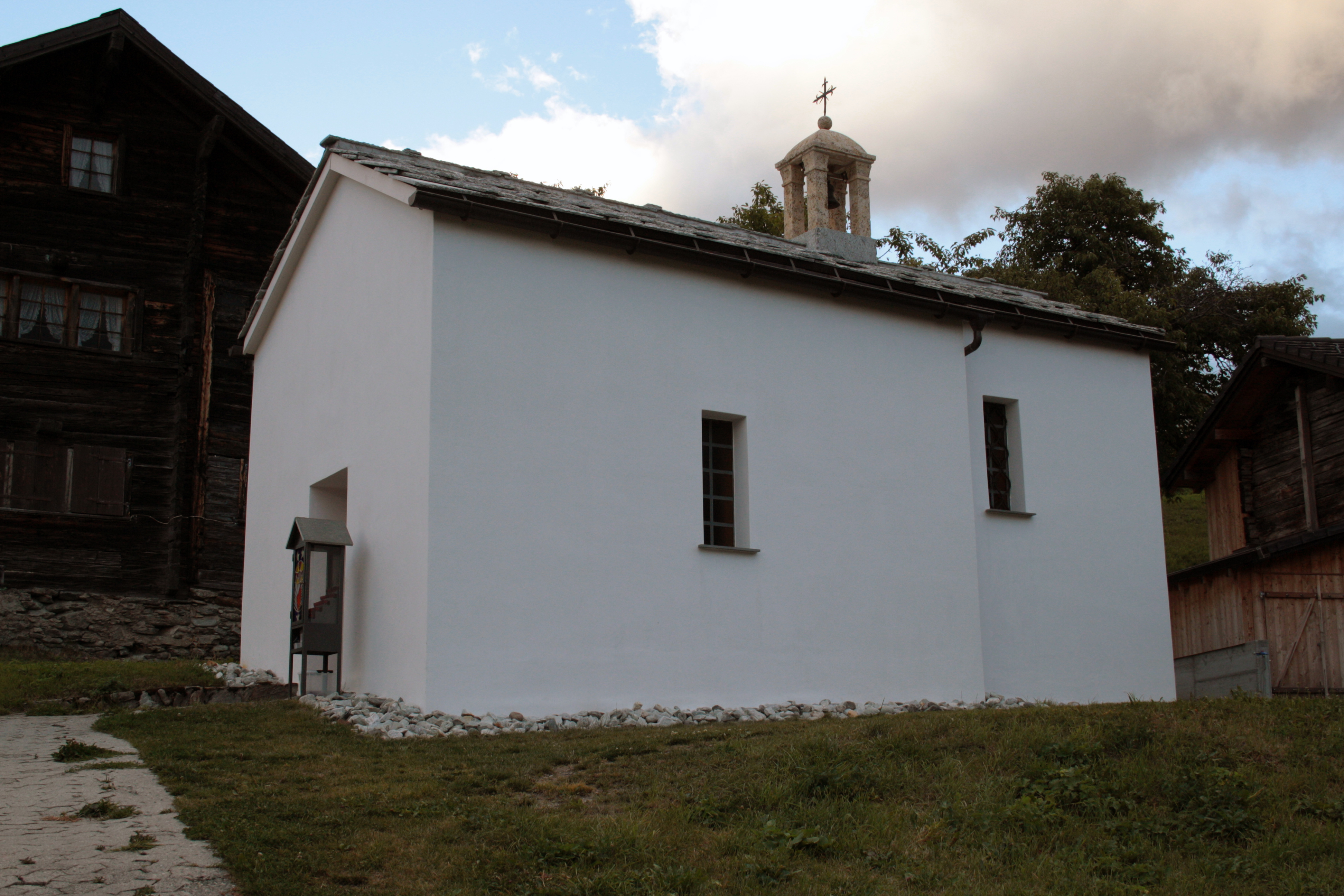 Muttergotteskapelle Bürchen